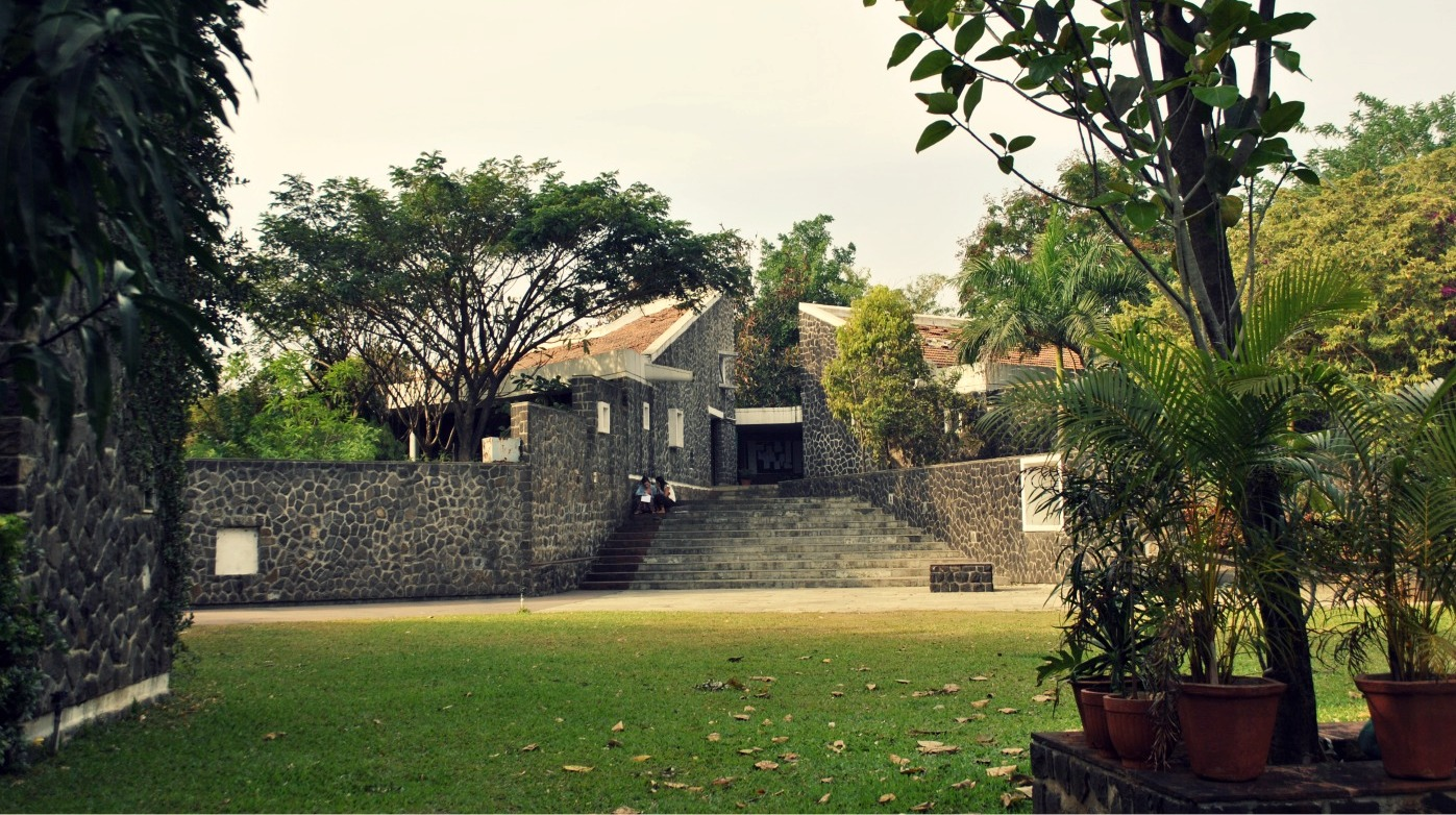 UWC Mahindra College: A view of one of the staircases leading towards the main academic quadrangle